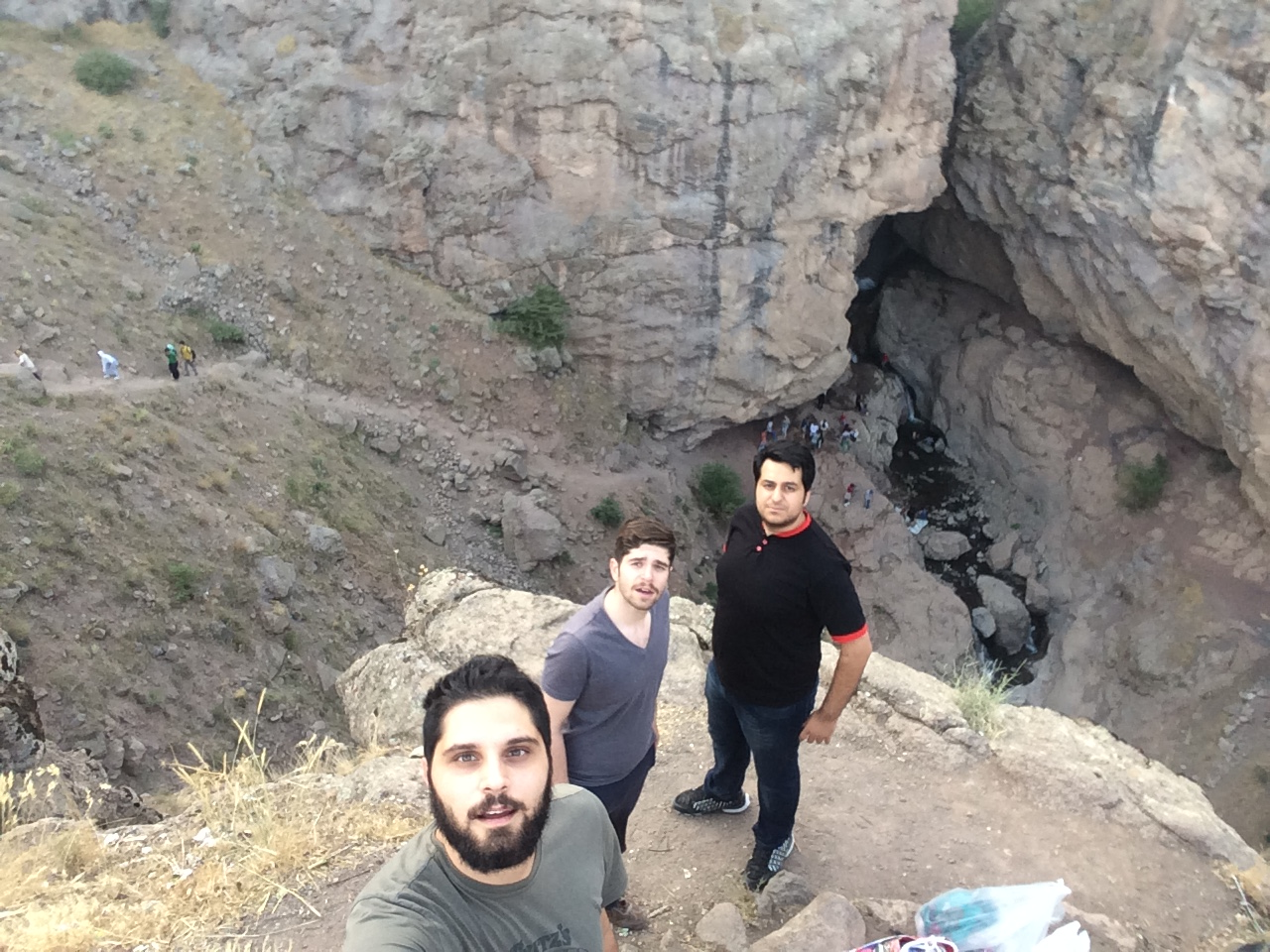 Gor Waterfall